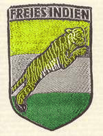 Armshield of the "Indian Legion"